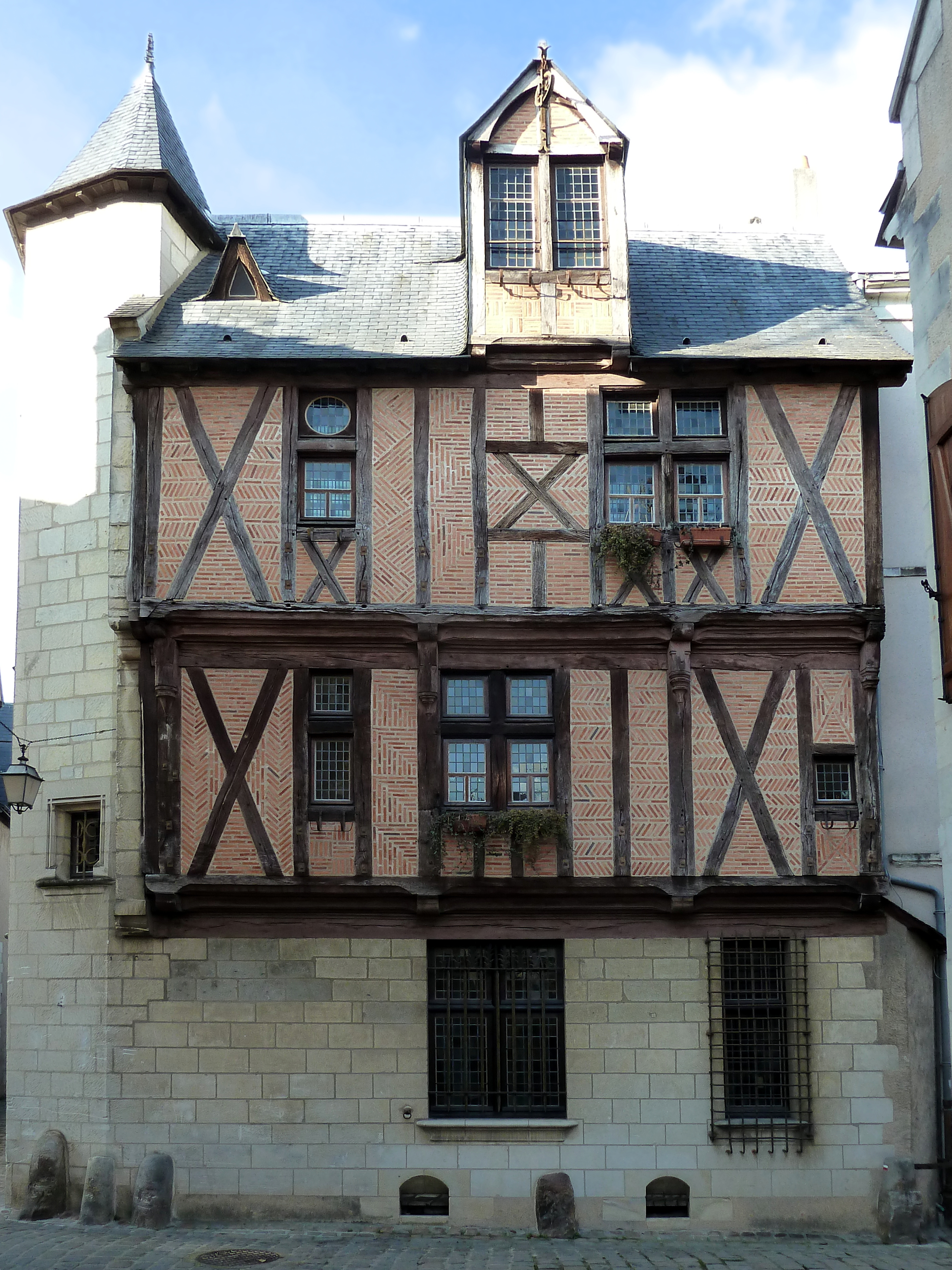 Facade of the Maison du Croissant (House of the Crescent), a 15th and 16th centuries house, 7 rue des Filles-Dieu in Angers, Maine-et-Loire, Pays de la Loire, France.